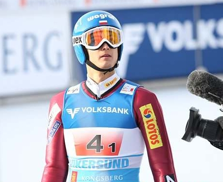 Maciej Kot during team competition of FIS Ski-Flying World Championships 2012.